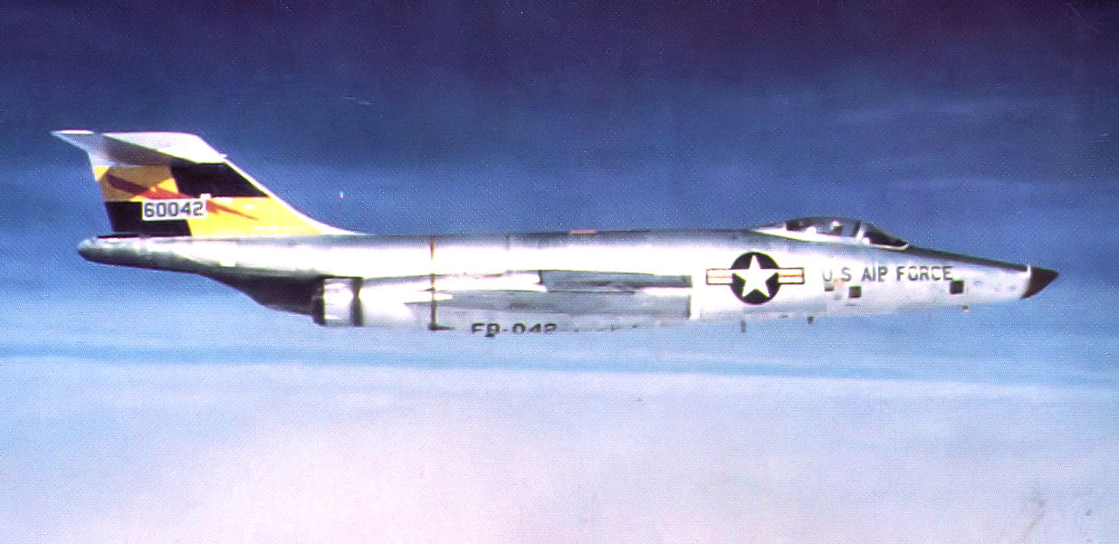 A U.S. Air Force 15th Reconnaissance Squadron McDonnell RF-101C-60-MC Voodoo (s/n 56-0042), Davis Monthan AFB, Arizona (USA).